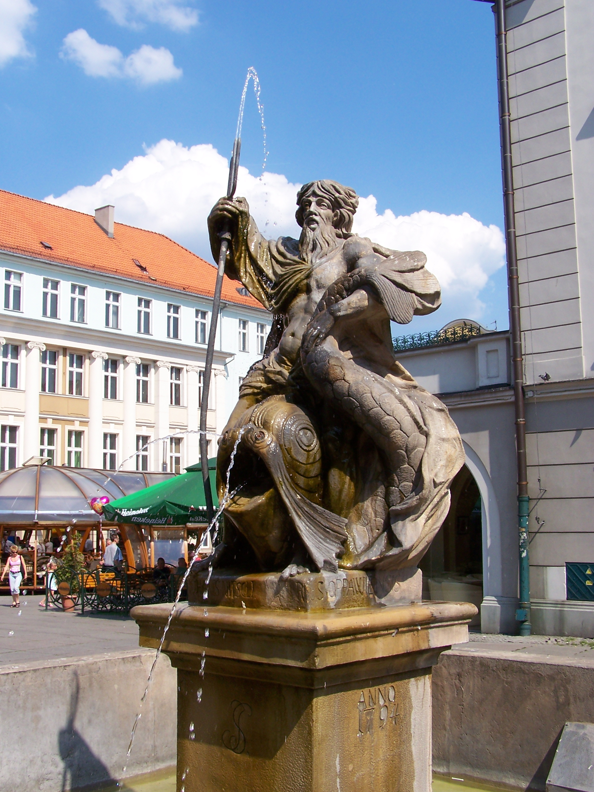 Fountain of Neptune in Gliwice (Poland).